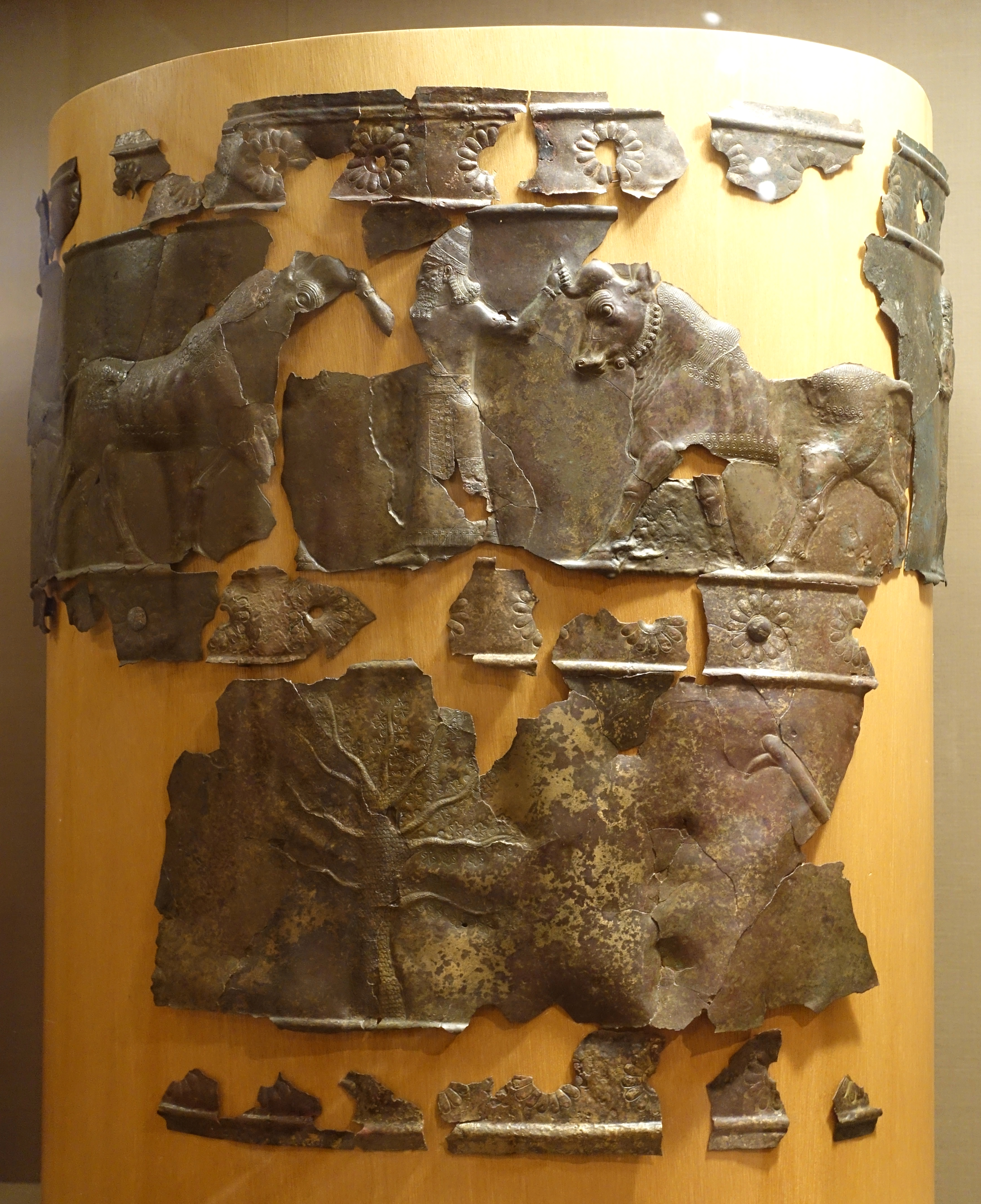 Exhibit in the Oriental Institute Museum, University of Chicago, Chicago, Illinois, USA. This work is old enough so that it is in the public domain.